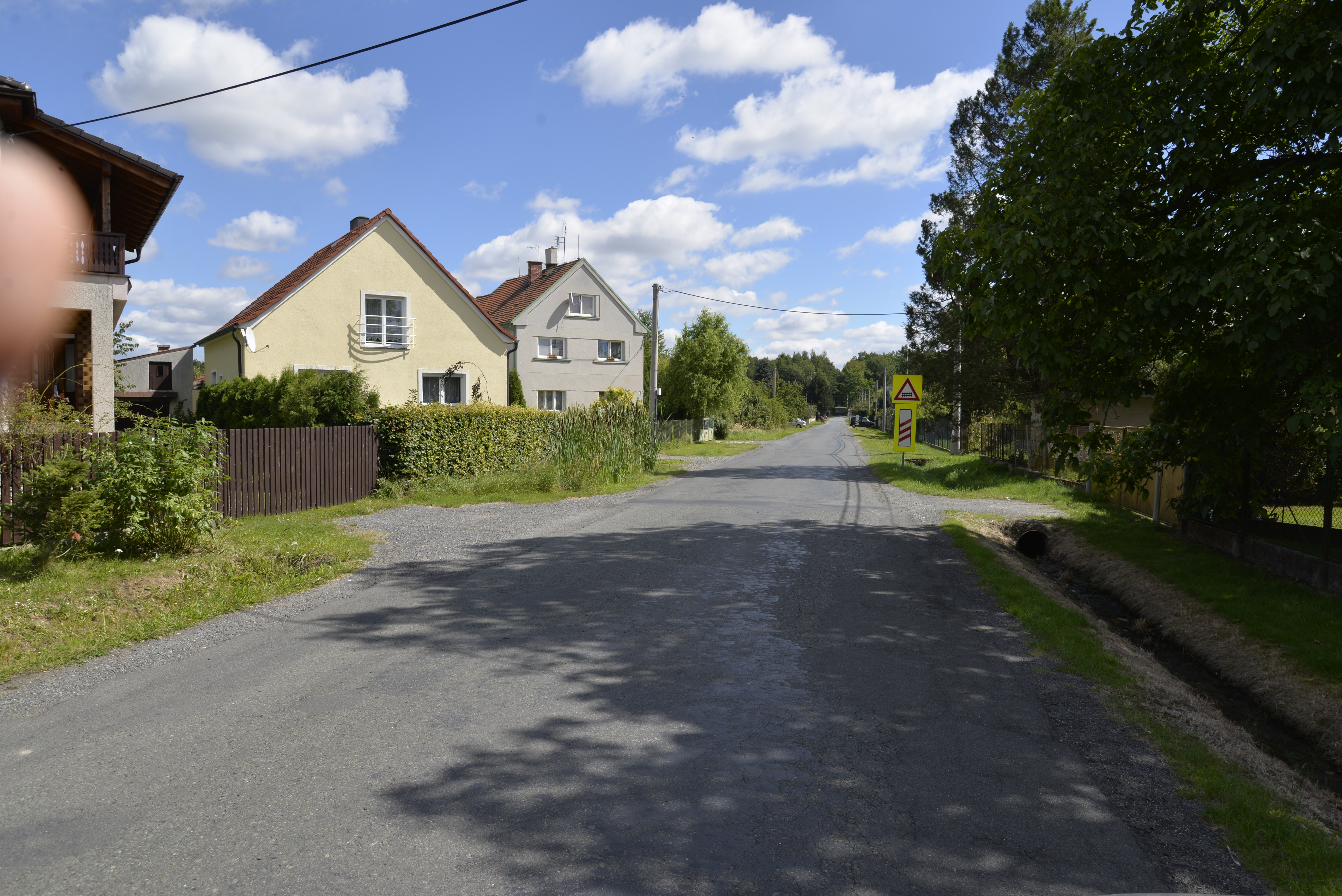 Zastávka - village, part of the city Přeštice in Plzeň-jih District